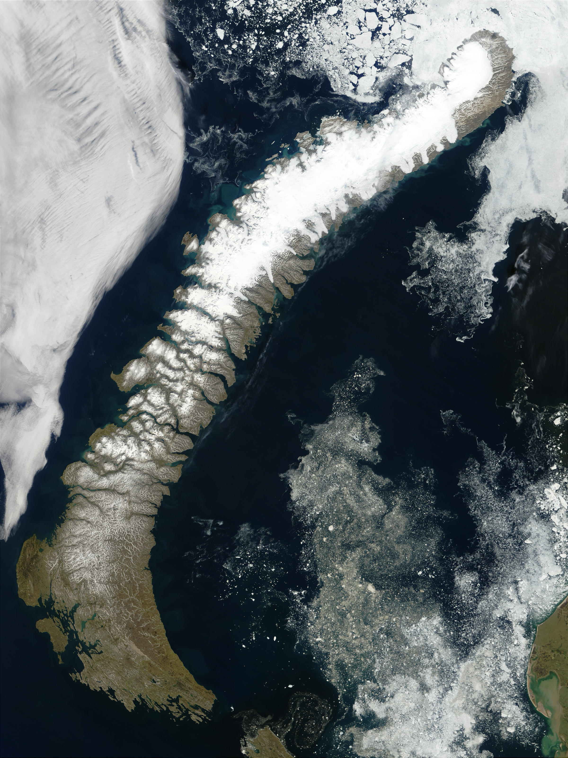 Novaya Zemlya archipelago